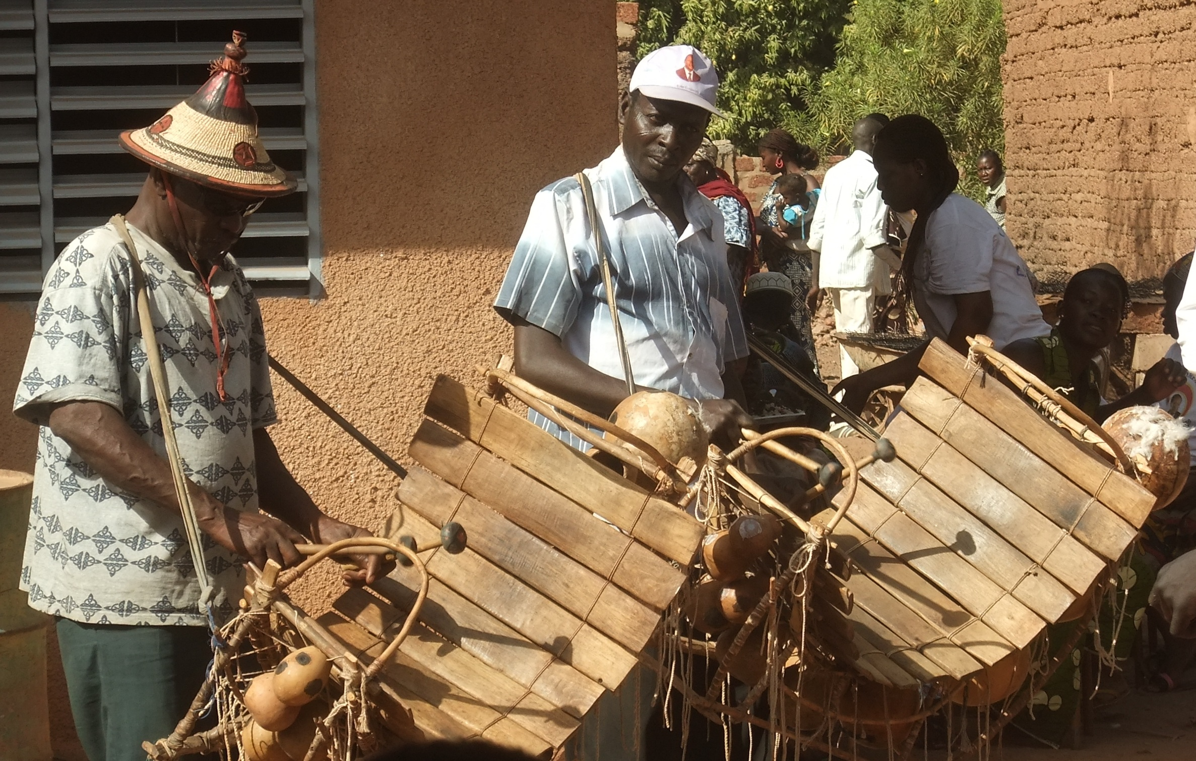 Dedougou, Burkina Faso This is an image of "African people at work" from Burkina Faso